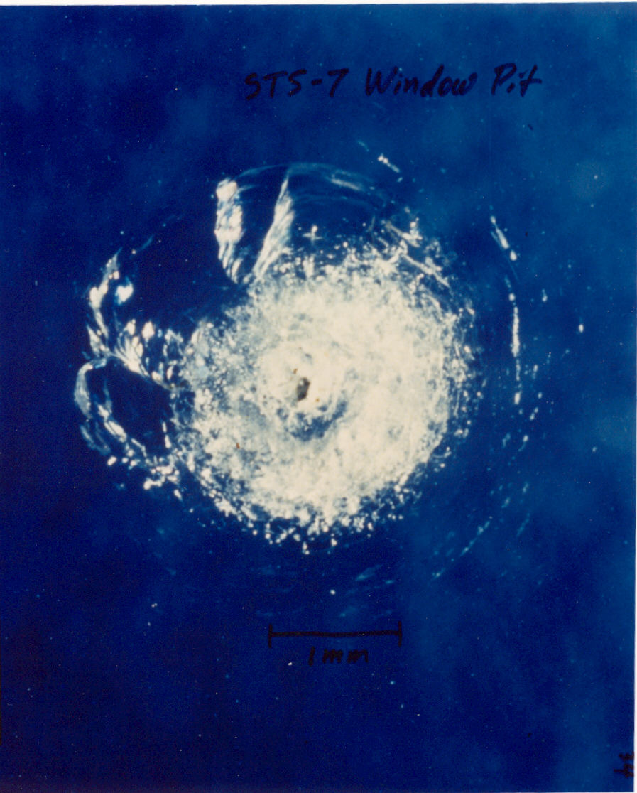 An impact crater on one of the windows of the Space Shuttle Challenger following a collision with a micrometeoroid during STS-7.